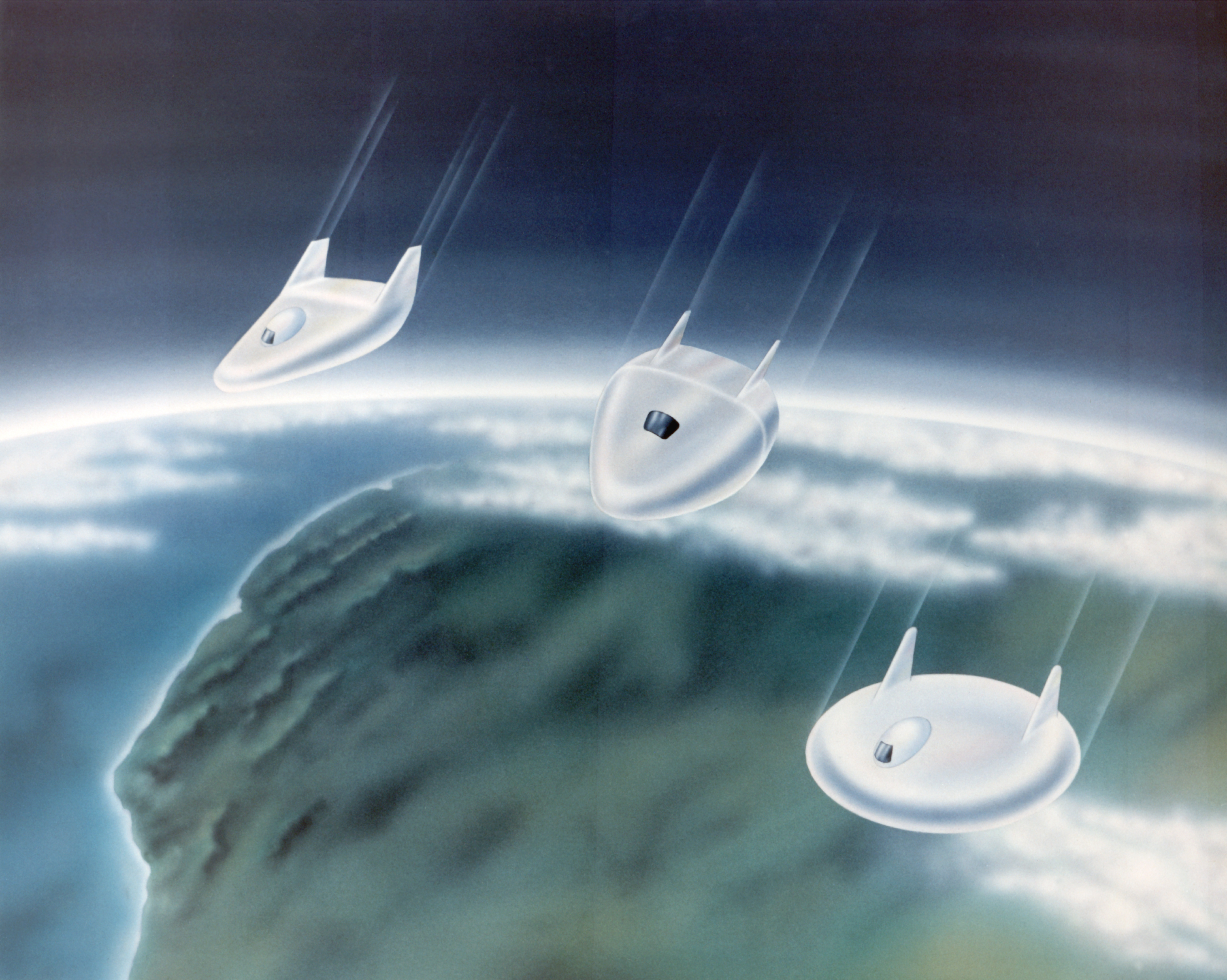 Lifting bodies, Ames M2-F1, M1-L half-cone and Langley lenticular (viewed left to right), proposed by NASA before building M2-F1.